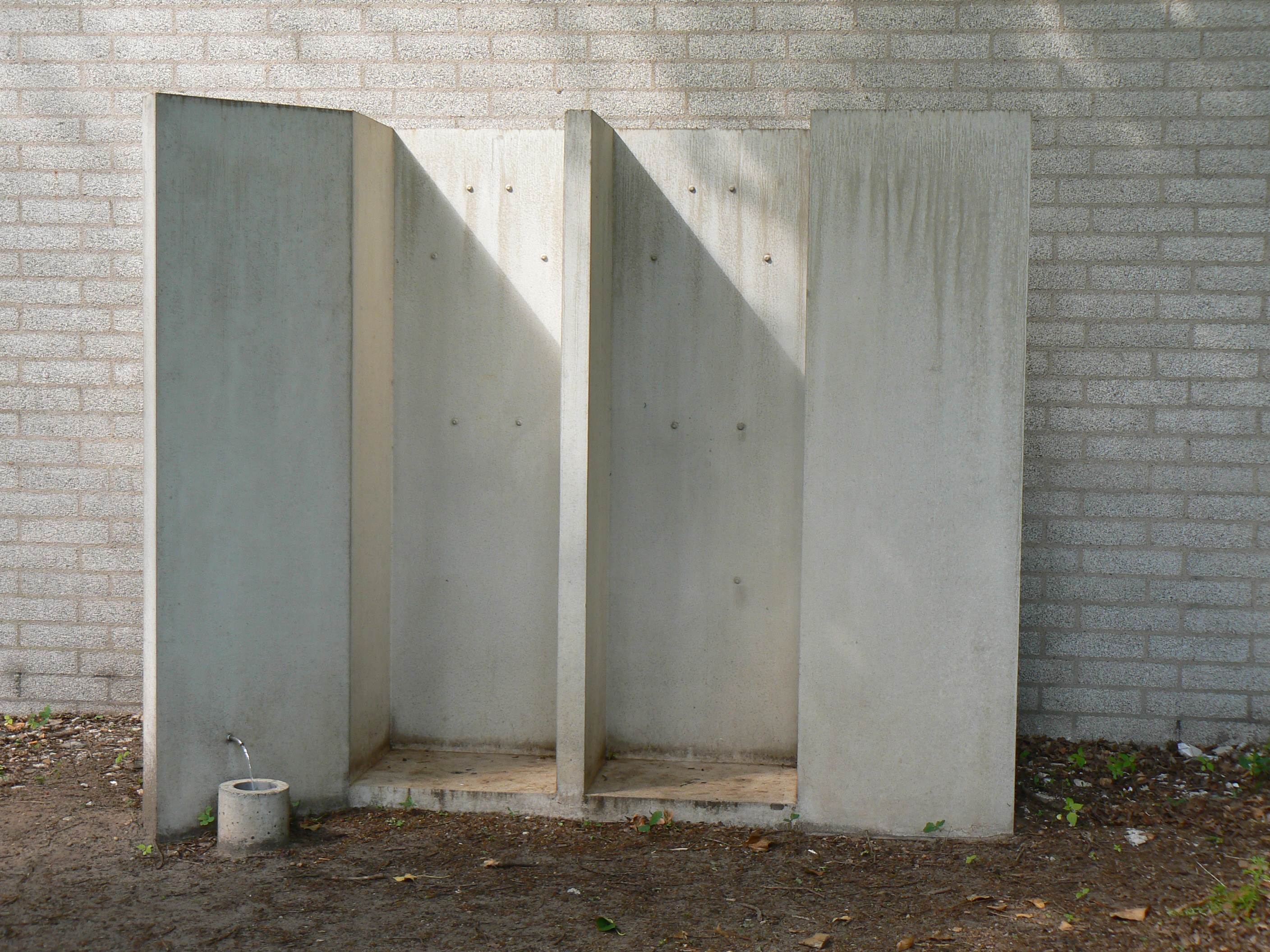 sculpture 200x238x95 (fountain) by Mirosław Bałka in sculpturepark KMM/The Netherlands